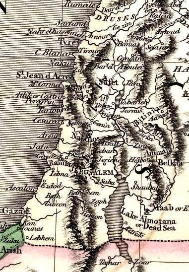 A new map of Turkey in Asia, divided into its provinces, from the best authorities. By John Cary, engraver, 1801. London: Published by J. Cary, Engraver & Map-seller, No. 181, Strand, Decr. 21, 1801.